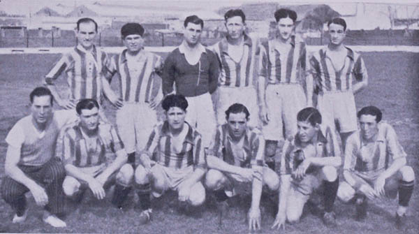 Sportivo Alsina team in 1936. This team disaffiliated from Argentine Football Association although the social club still exists. Based in Valentín Alsina of Greater Buenos Aires, Sportivo is currently an amateur club.